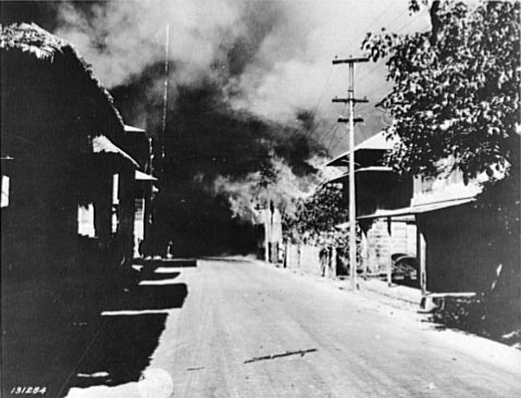 March 1943: General view showing houses burning as the result of Japanese bombing raid in Bataan, the Philippine Islands.